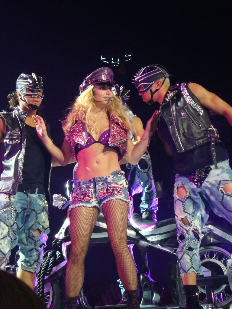 Spears